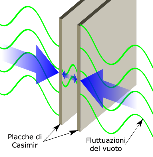 Illustration of the Casimir effect.